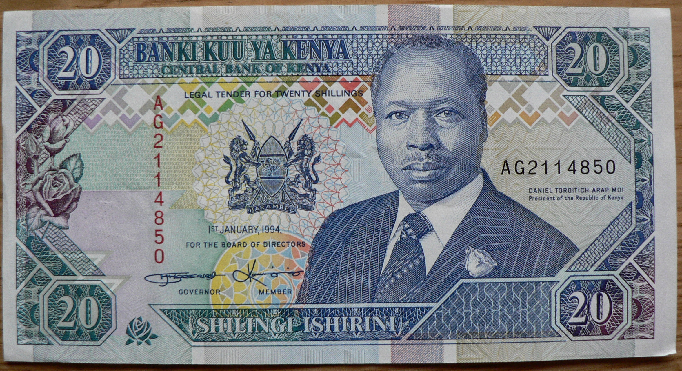 A photo of a 20 shilling note from Kenya. It was issued in 1994 so is likely to be an old design (there is a new President) but still legal tender.